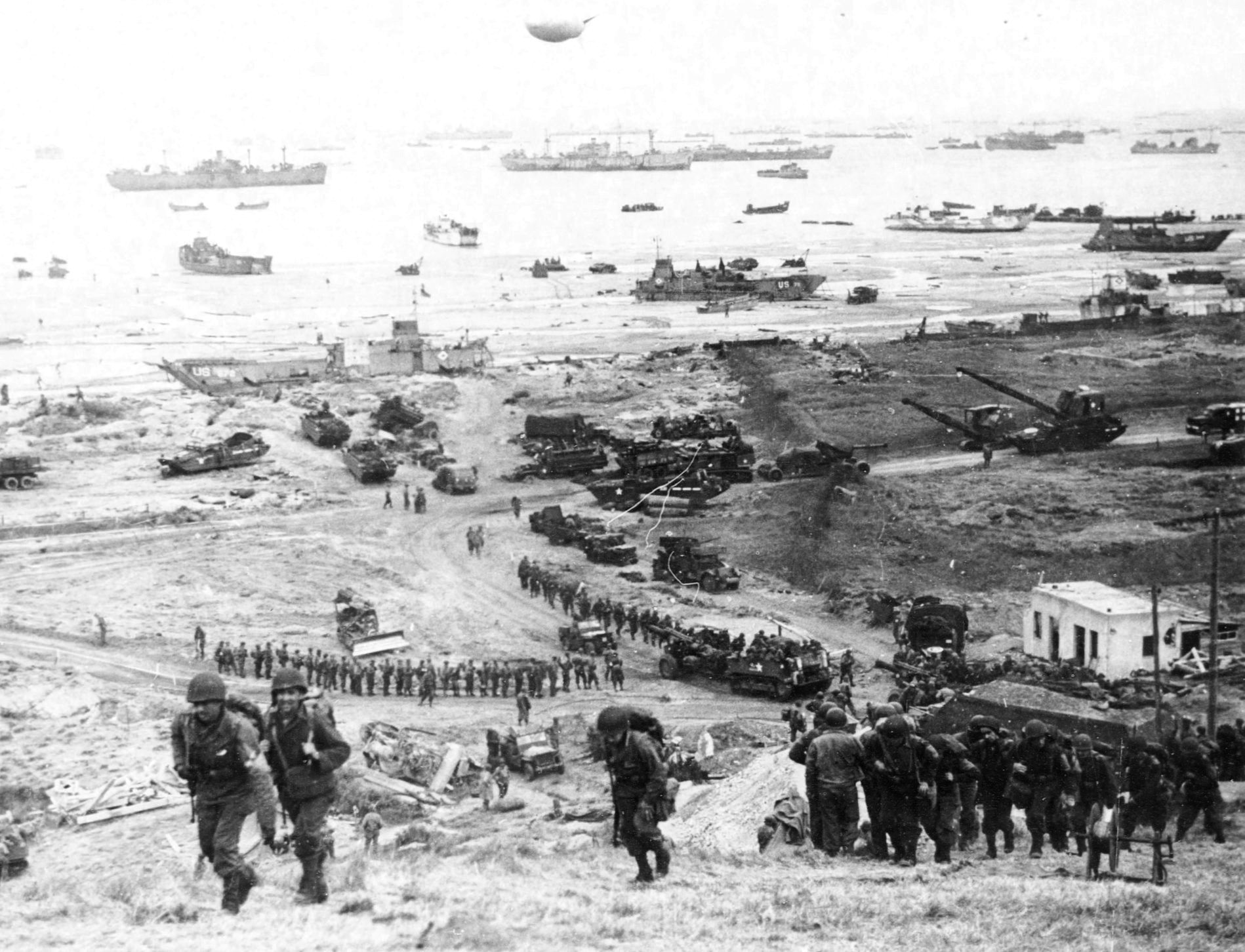 SC 193082 Normandy Invasion, June 1944 The build-up of Omaha Beach. Reinforcements of men and equipment moving inland, D+2, 8 June 1944. Roadways appear as if by magic as long lines of men and materiel stream ashore at a beach in northern France. With the beach situation well under control, there is an increasing flow of troops and supplies to reinforce the units now in combat. 8 June 1944. (original 1944-vintage photo caption) This view was taken on Omaha Beach. Note the heavy guns, mobile cranes, DUKWs and other vehicles on the beach roads; former German pillbox in the lower left; LCTs unloading at low tide; and shipping off shore. USS LCT-572 is at left, broached at the high tide line.